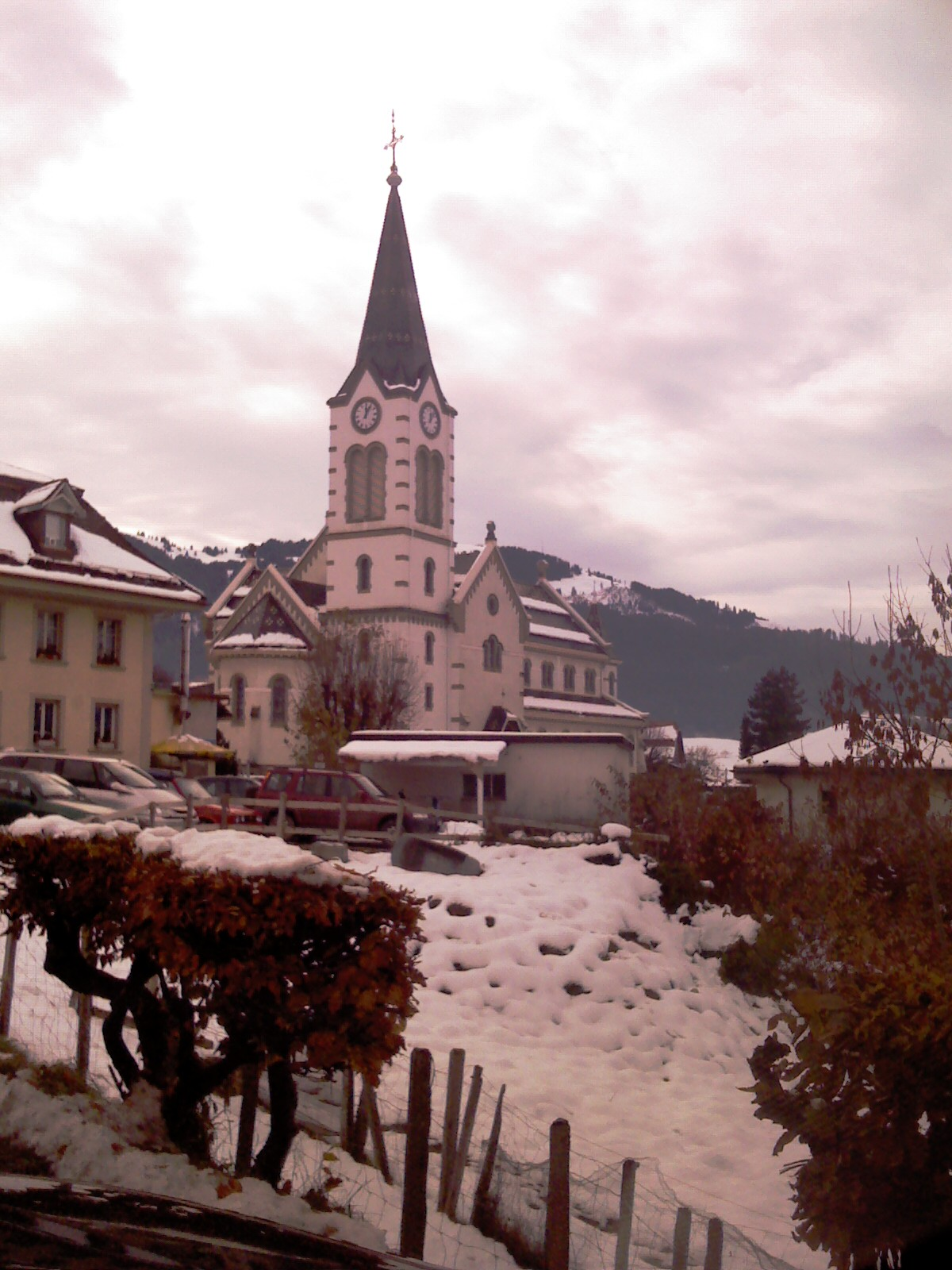 Plaffeien Church, Canton of Fribourg, SwitzerlandEsperanto: Plaffeien preĝejo, Kantono Friburgo, Svislando